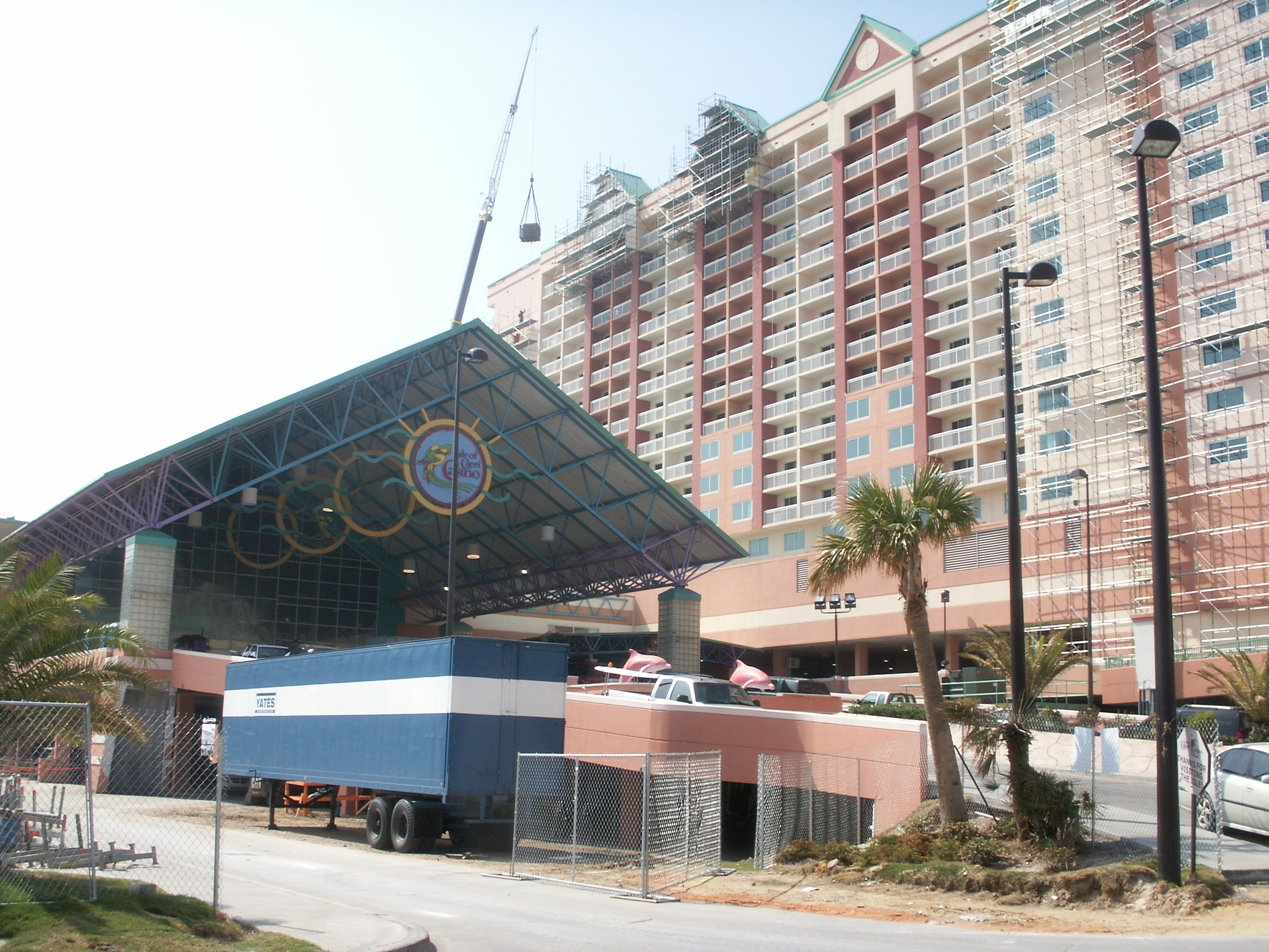 Isle of Capri Hotel Tower I in Biloxi, Mississippi